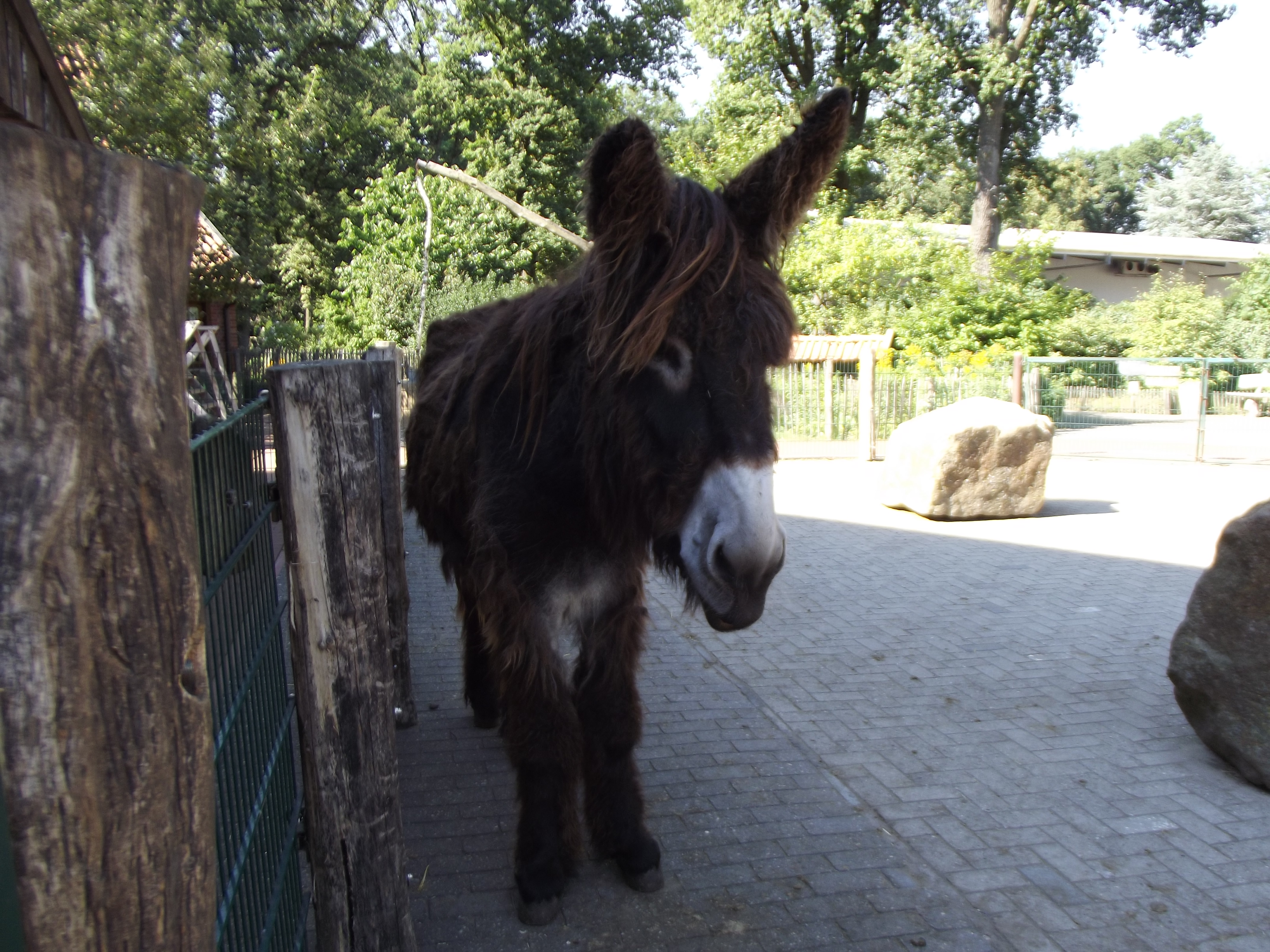 One of the donkeys kept on the Vechtehof, the farm museum on the premises of the Tierpark Nordhorn